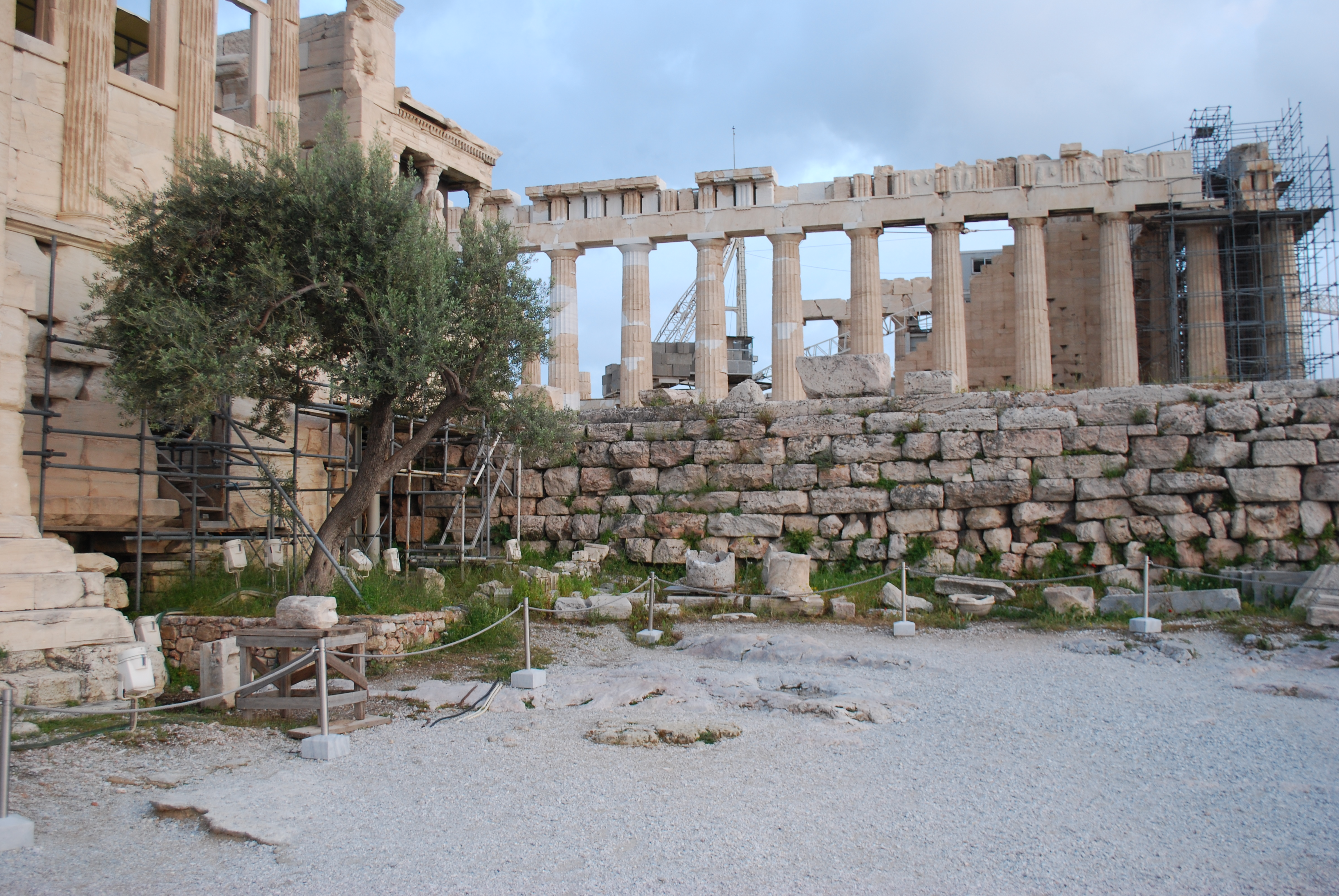 Location of Pandroseion (Pandrosion) next to Erechtheion (left). In the background, Parthenon.